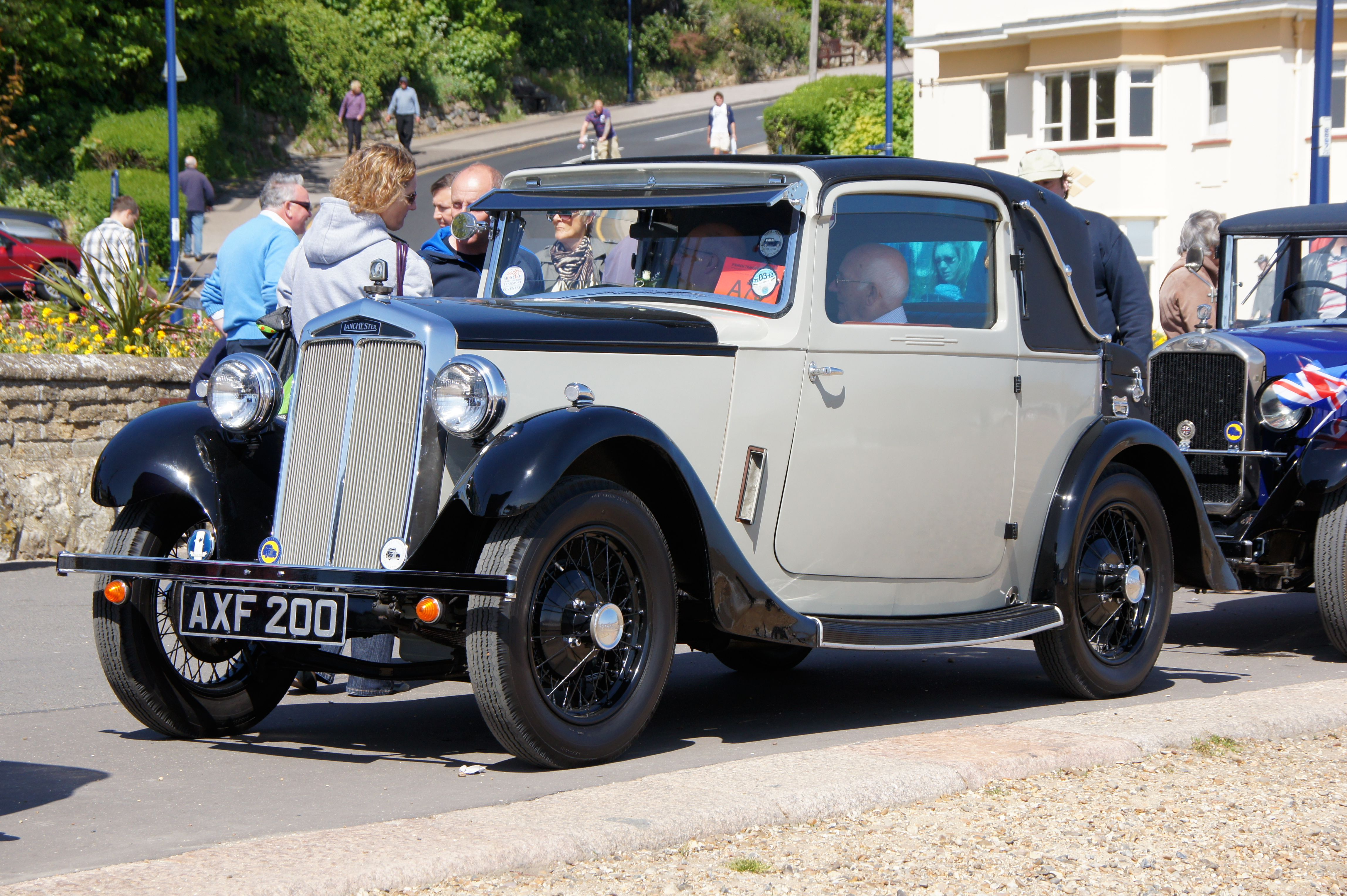 Lanchester LA10 drophead coupéDVLA first registered 31 January 1934, 1141ccThis photo was taken on May 1, 2011 in Felixstowe, England, GB, using a Sony DSLR-A550.